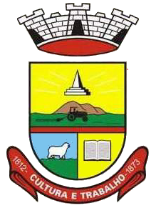 Coat of arms of the city of Arroio Grande, Rio Grande do Sul, Brazil